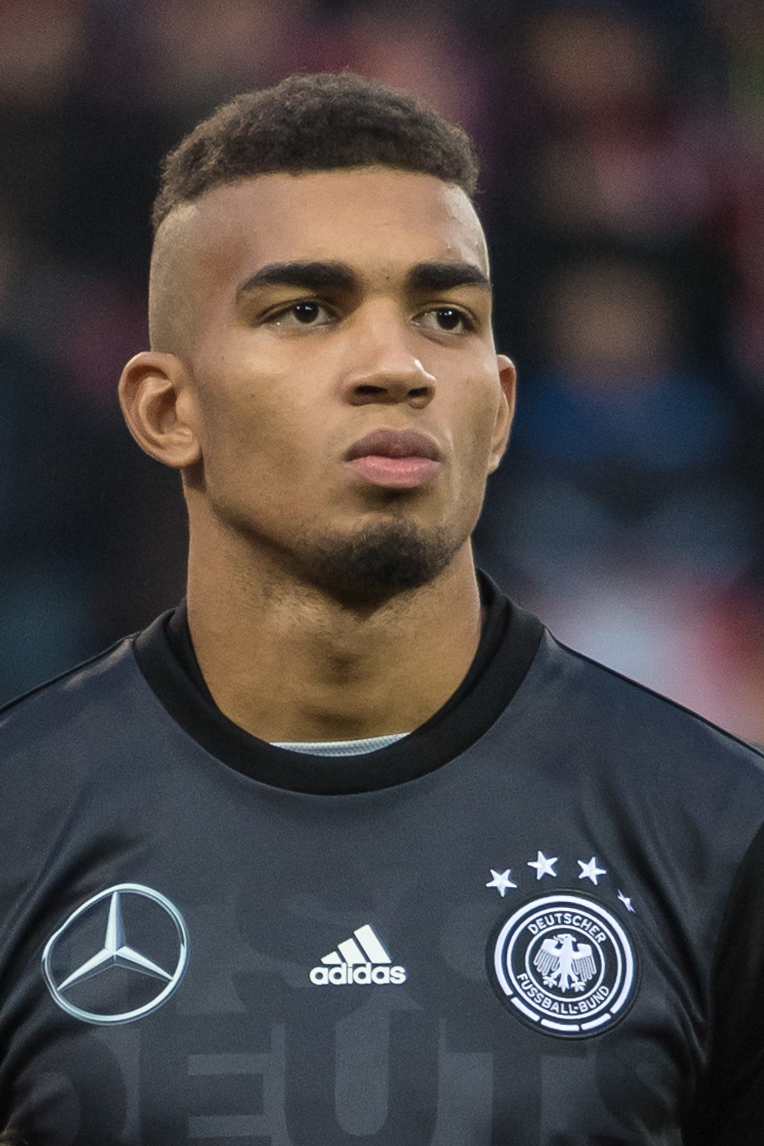 European Under-21 Championship 2017 Qualifying Round, Austria vs Germany, 11/10/2016, St. Polten